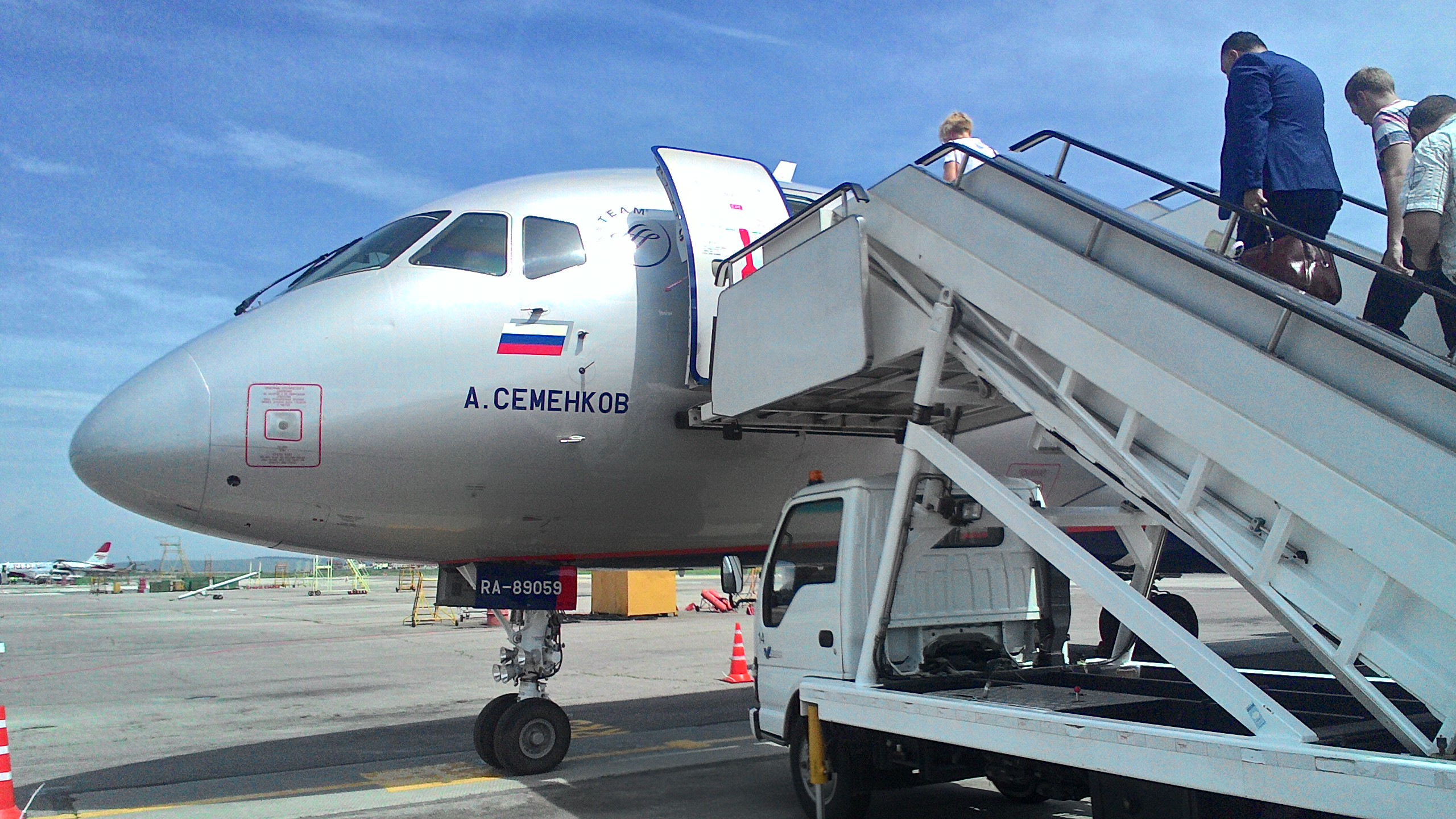 Sukhoi Superjet 100-95 (RA-89059) at Saratov Tsentralny Airport